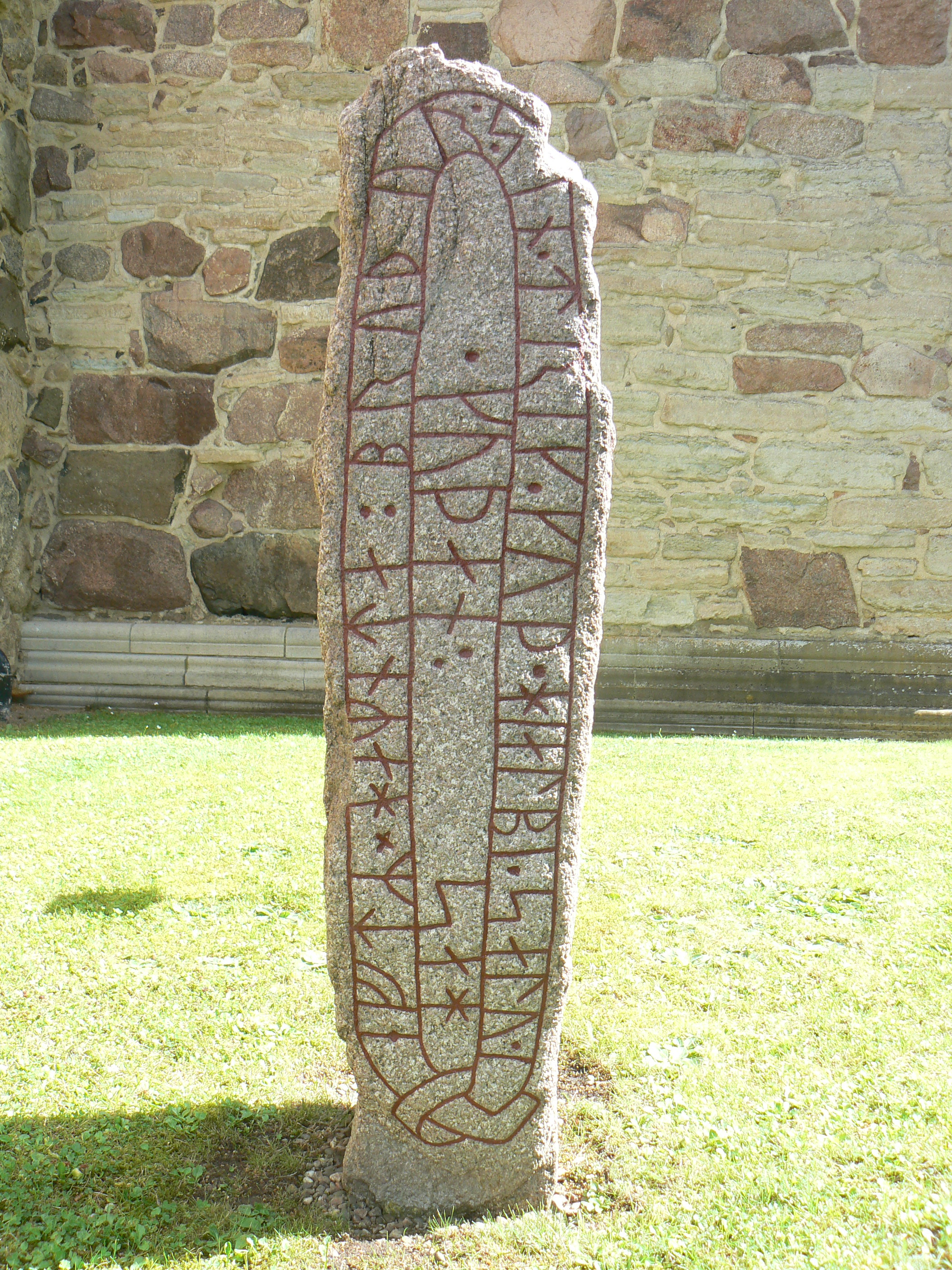 Runestone (Öster Götlands runinskrifter 201) at Mantorp (Veta church), photo showing the west side of the stone, which is also carved on its north side.